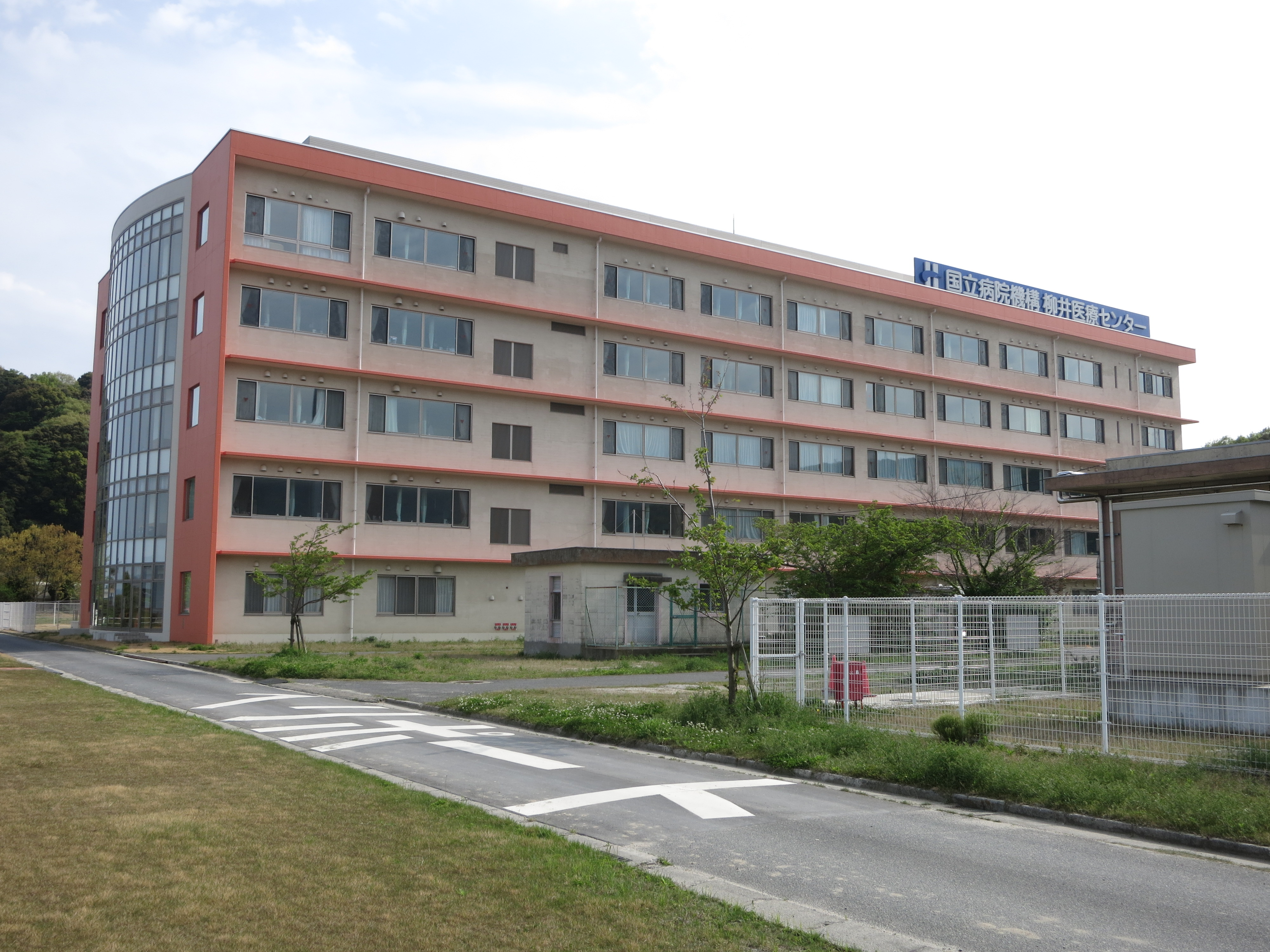 National_Hospital_Organization_Yanai_National_Hospital